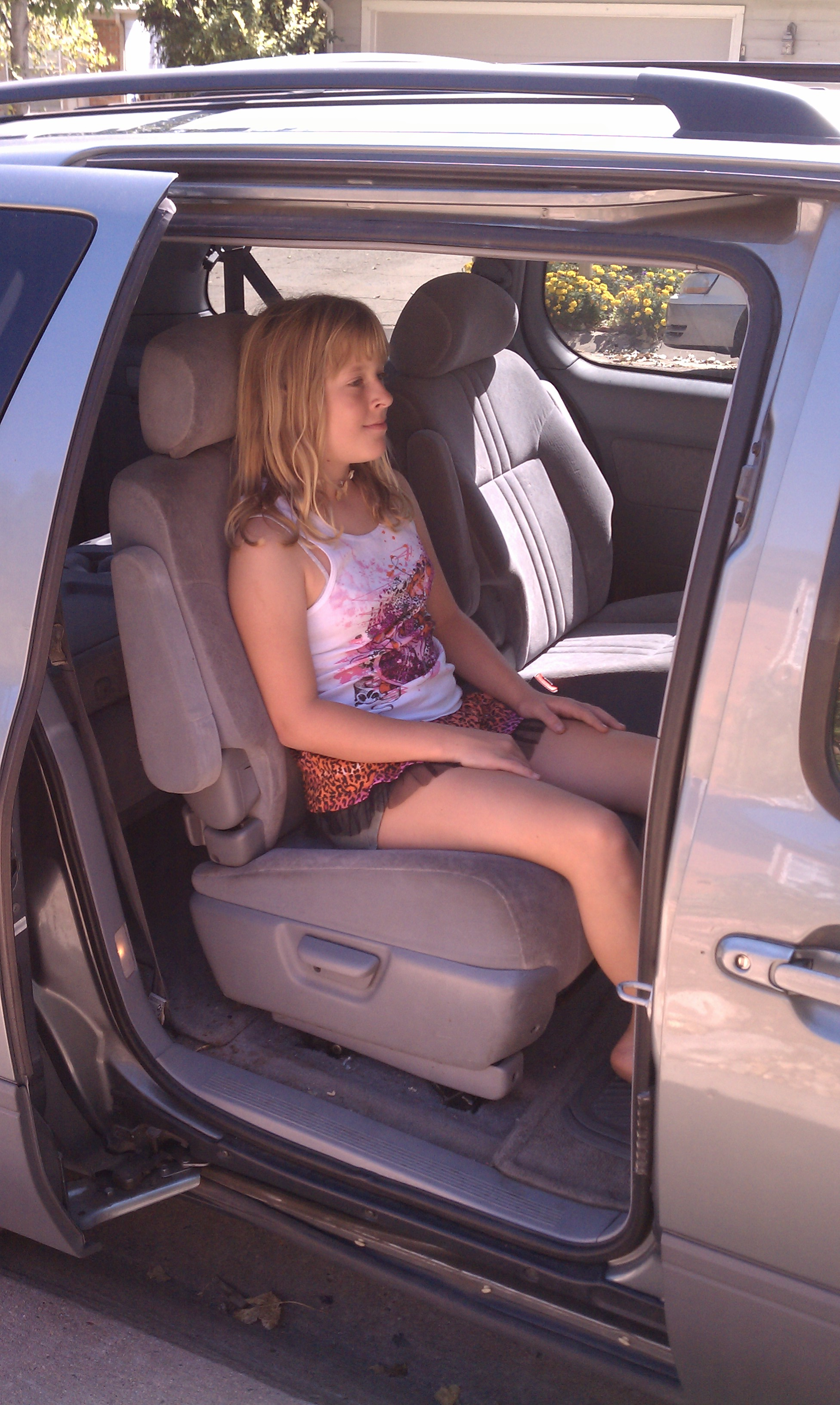 Our 2000 Toyota Sienna - Katherine's favorite seat (infant carrier or not).